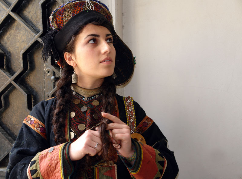 A Georgian girl in national garments from the mountainous province of Khevsureti.